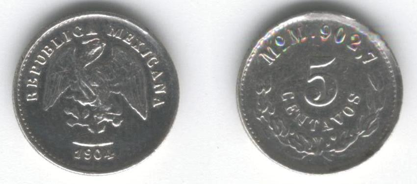 5 cents, Mexico, 1904